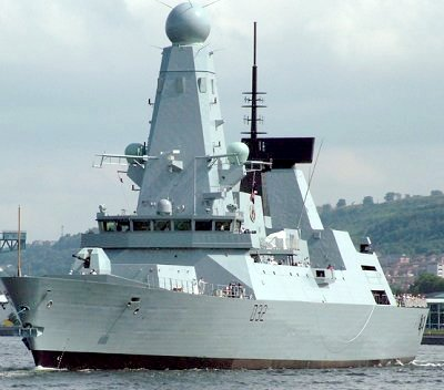 HMS Daring (D32), the first Type 45 guided missile destroyer embarking on sea trials.